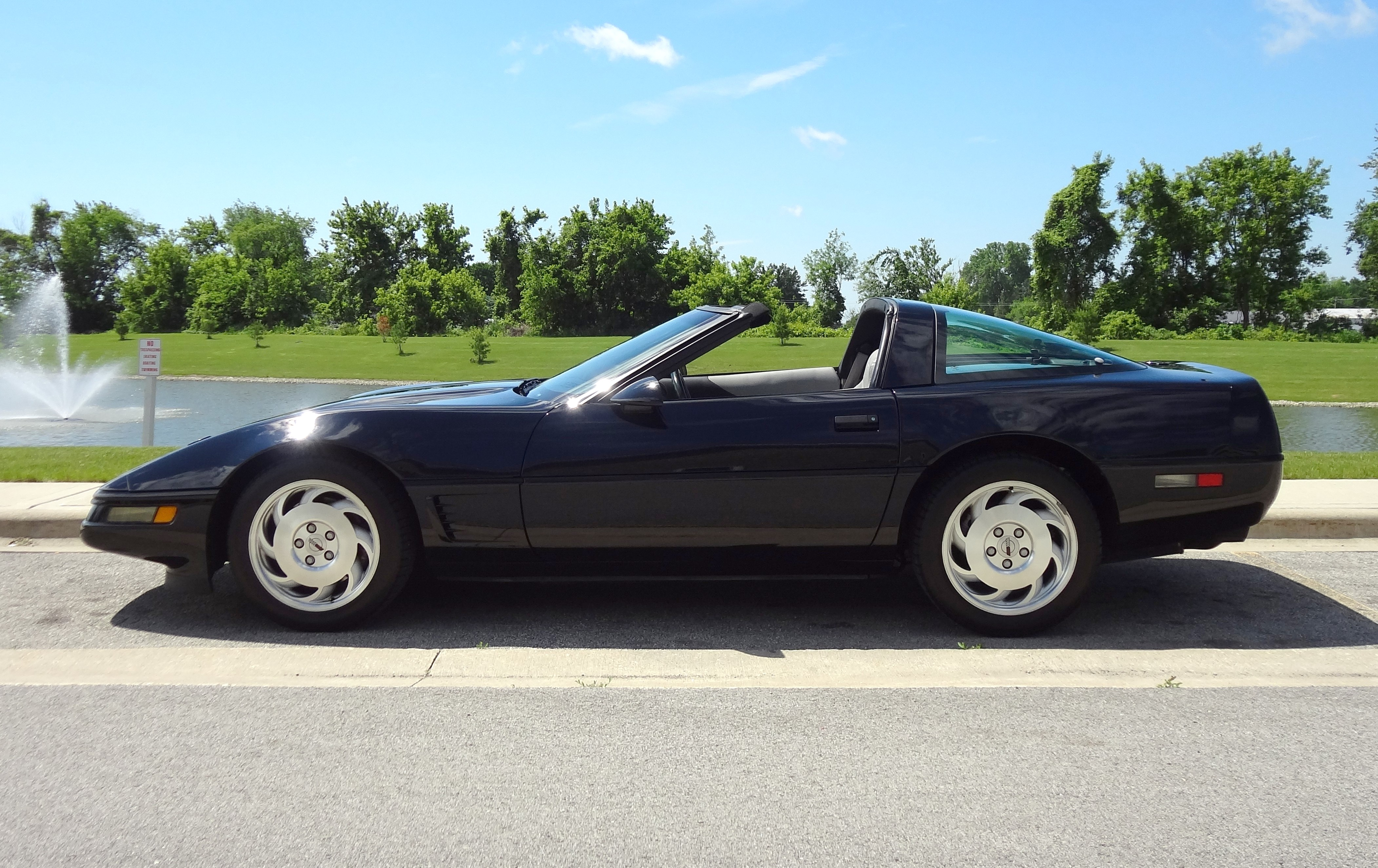 1996 Chevrolet Corvette C4